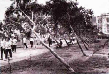 Typhoon Shirley destruction in Causeway Bay, Hong Kong.